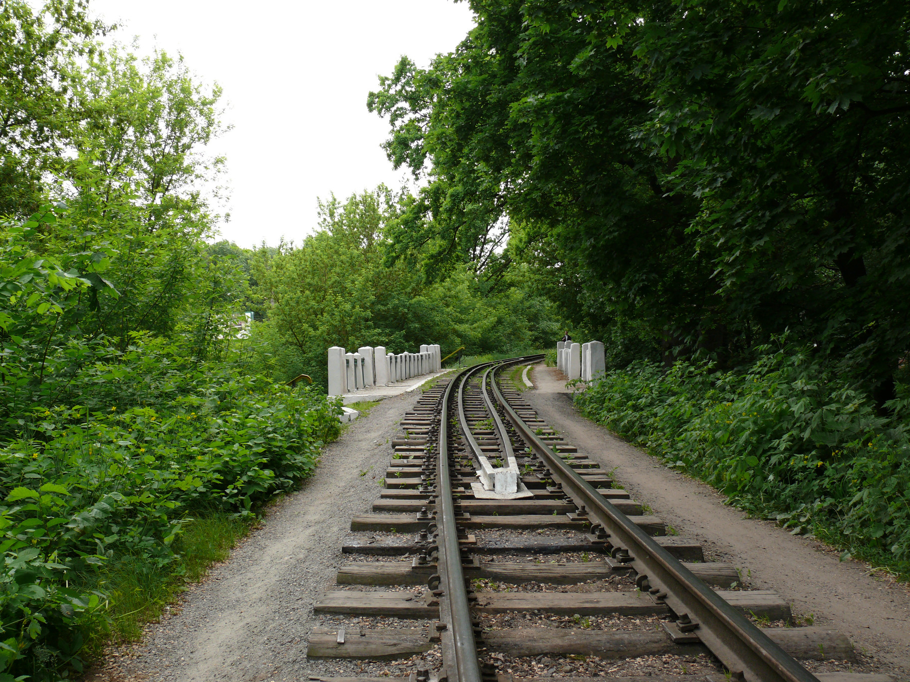 Kharkov children's railway